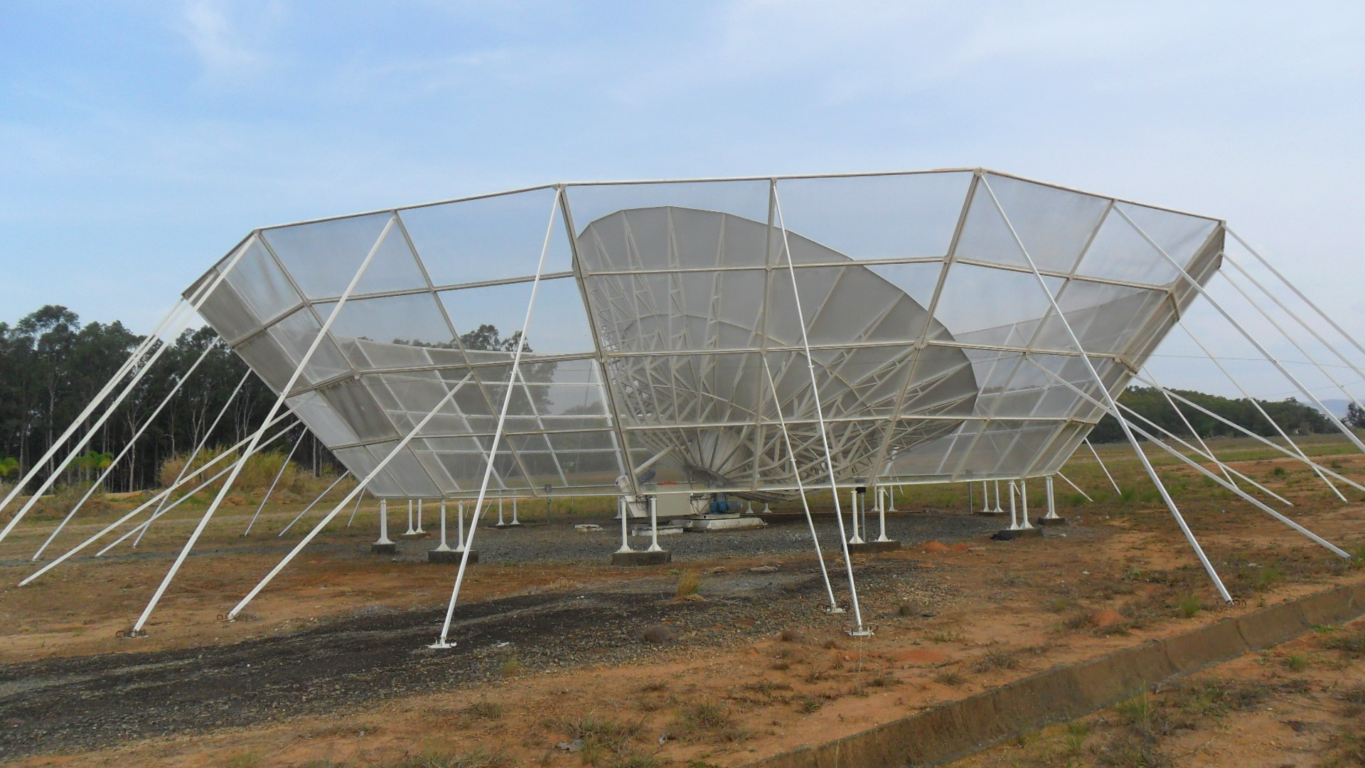 Side view of GEM radio telescope in Cachoeira Paulista, Brazil